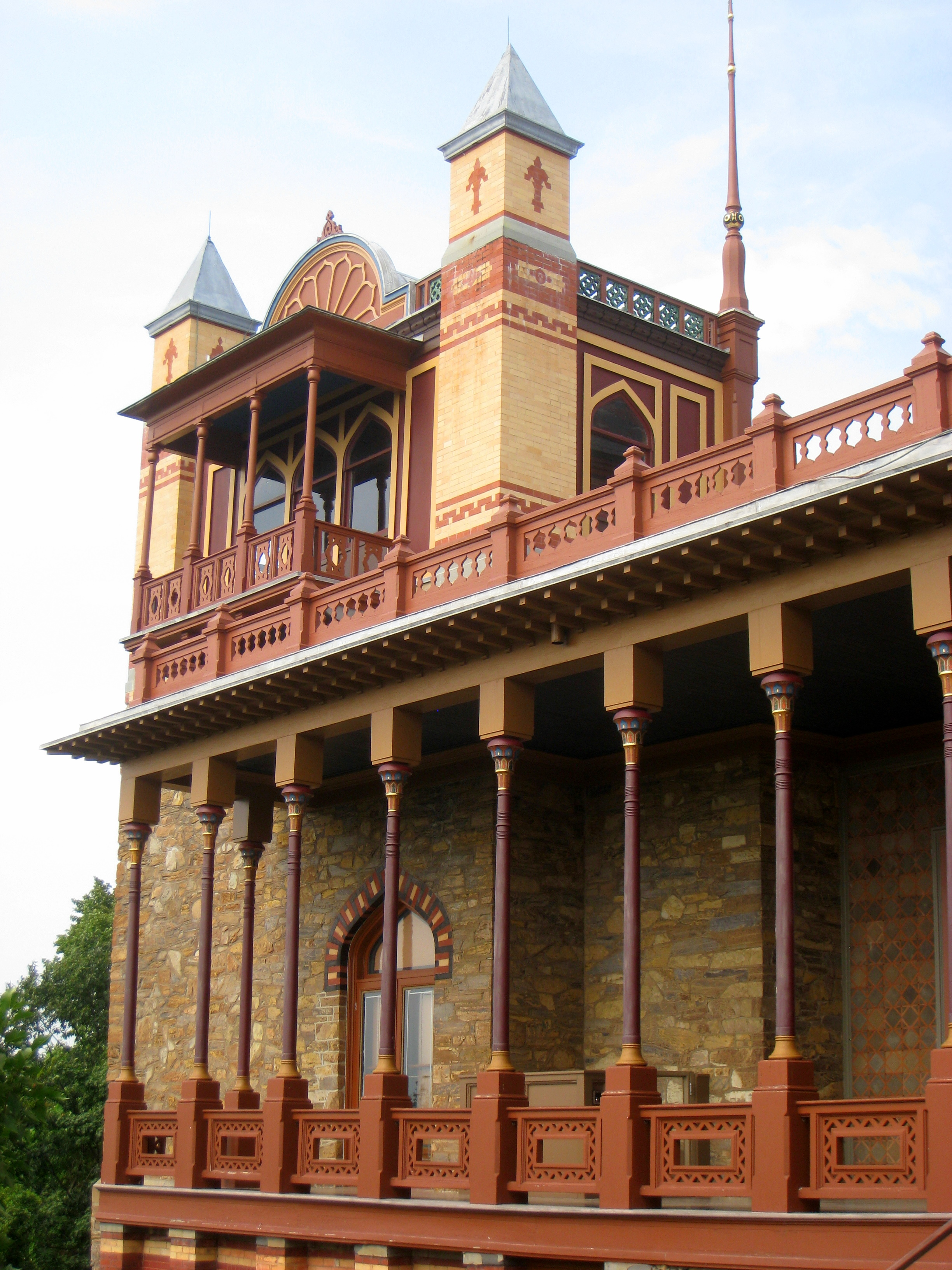 Olana State Historic Site, Columbia County, New York, USA.